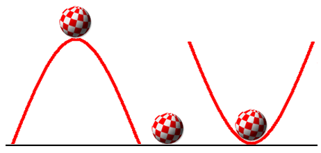 From left to right, unstable , neutral, and stable equilibrium